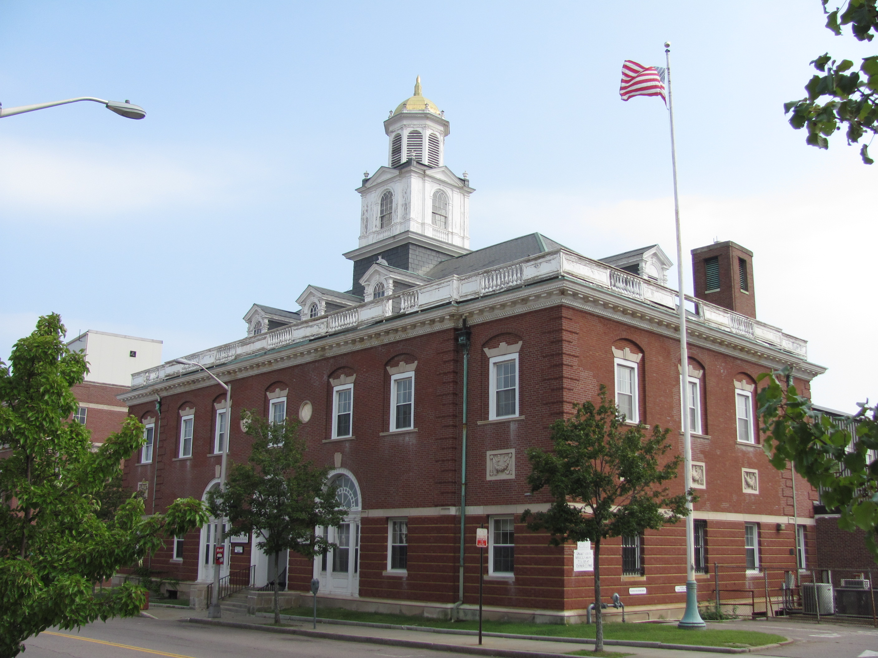 Old Post Office Building, 43 Crescent Street, Brockton Massachusetts